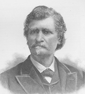 William Harrison Martin, US Representative from Texas